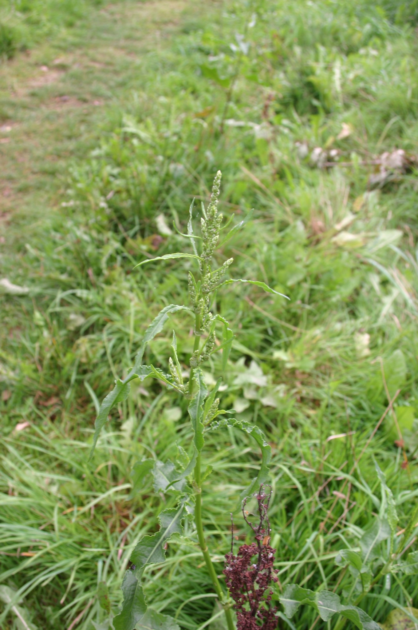 Rumex longifolius: Flowering.